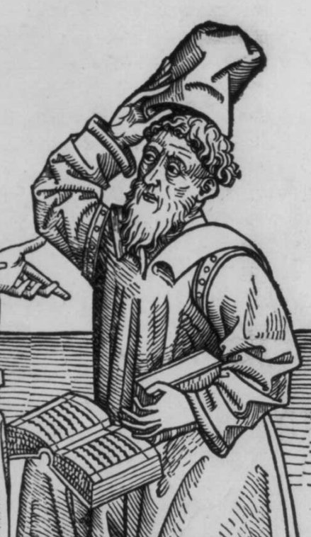 Artwork of Borzuya, he was a Persian physician during the reign of Khosrau I.